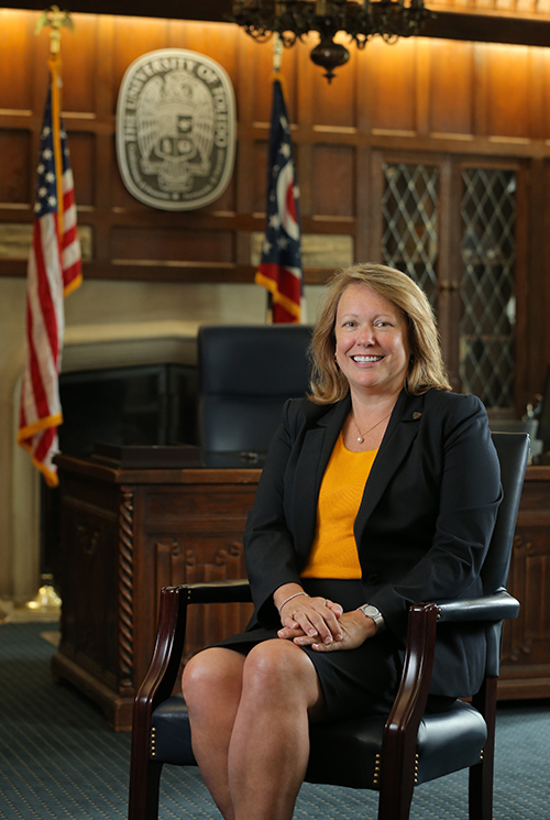 Dr. Gaber Presidential Portrait University Hall 3580